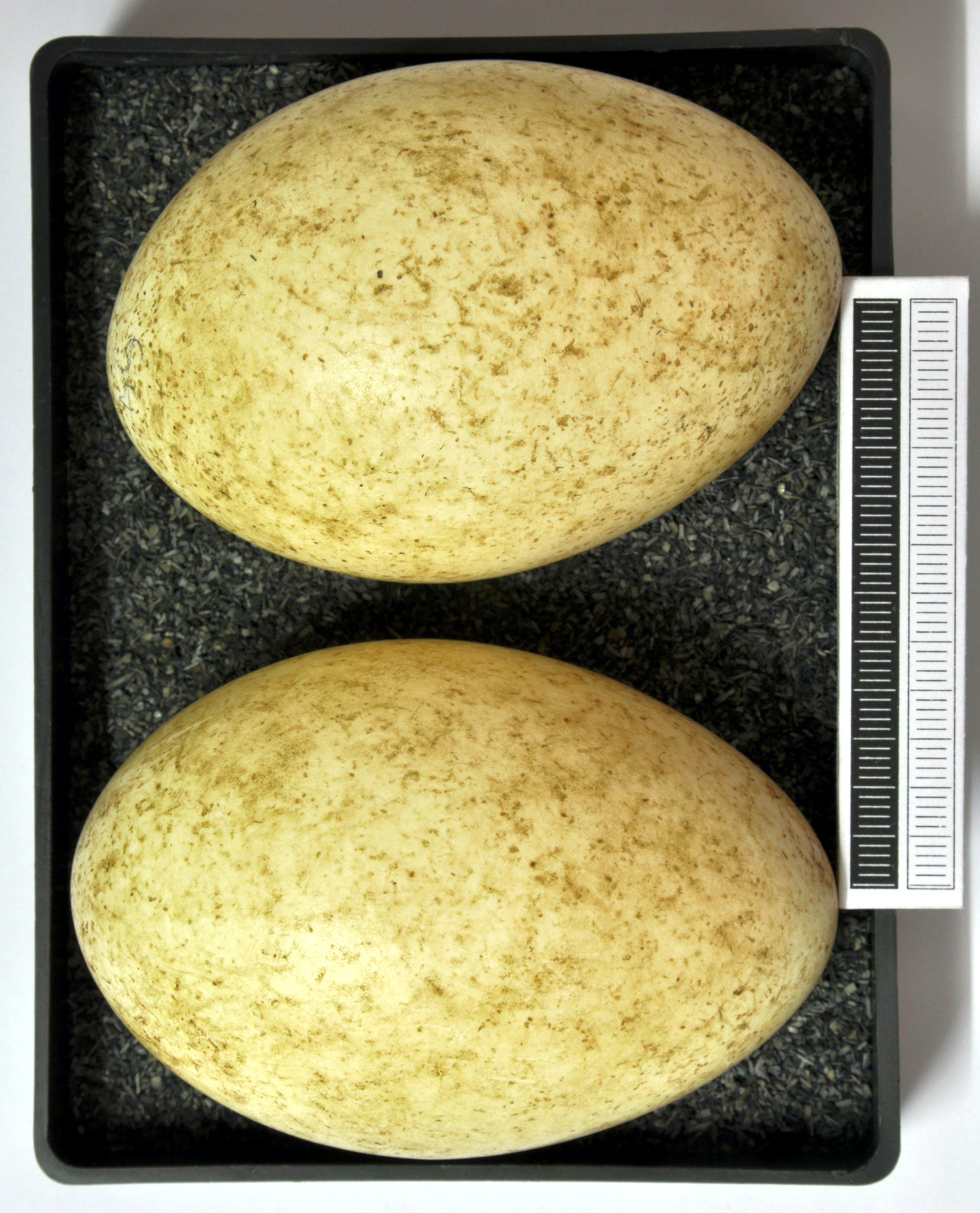 Pink-footed goose Anser brachyrhynchus, egg, Coll. Museum Wiesbaden, Origin: Spitsbergen, Norway, 23.06.1975, leg. W. Abelmann